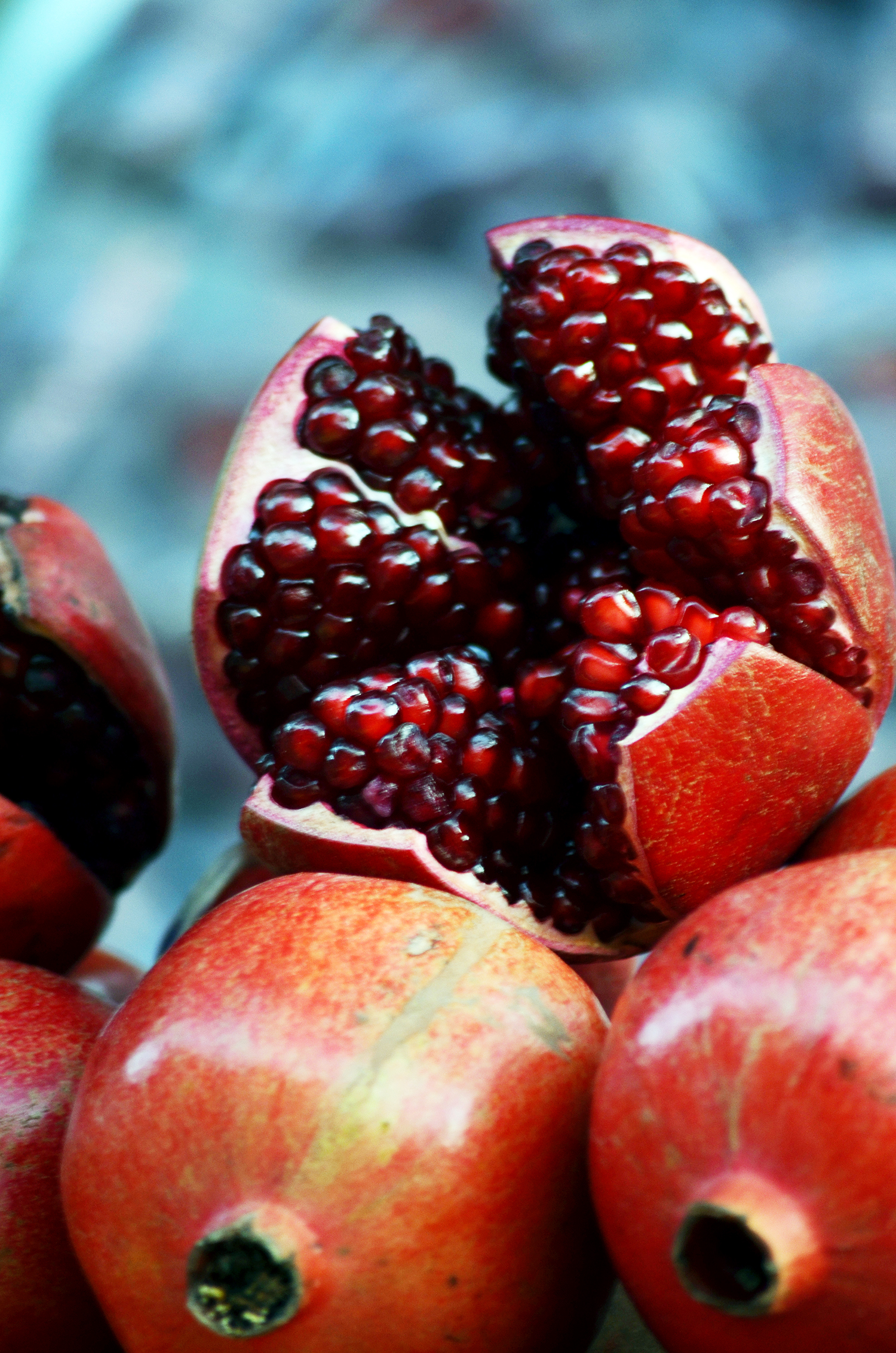 Pomegranate